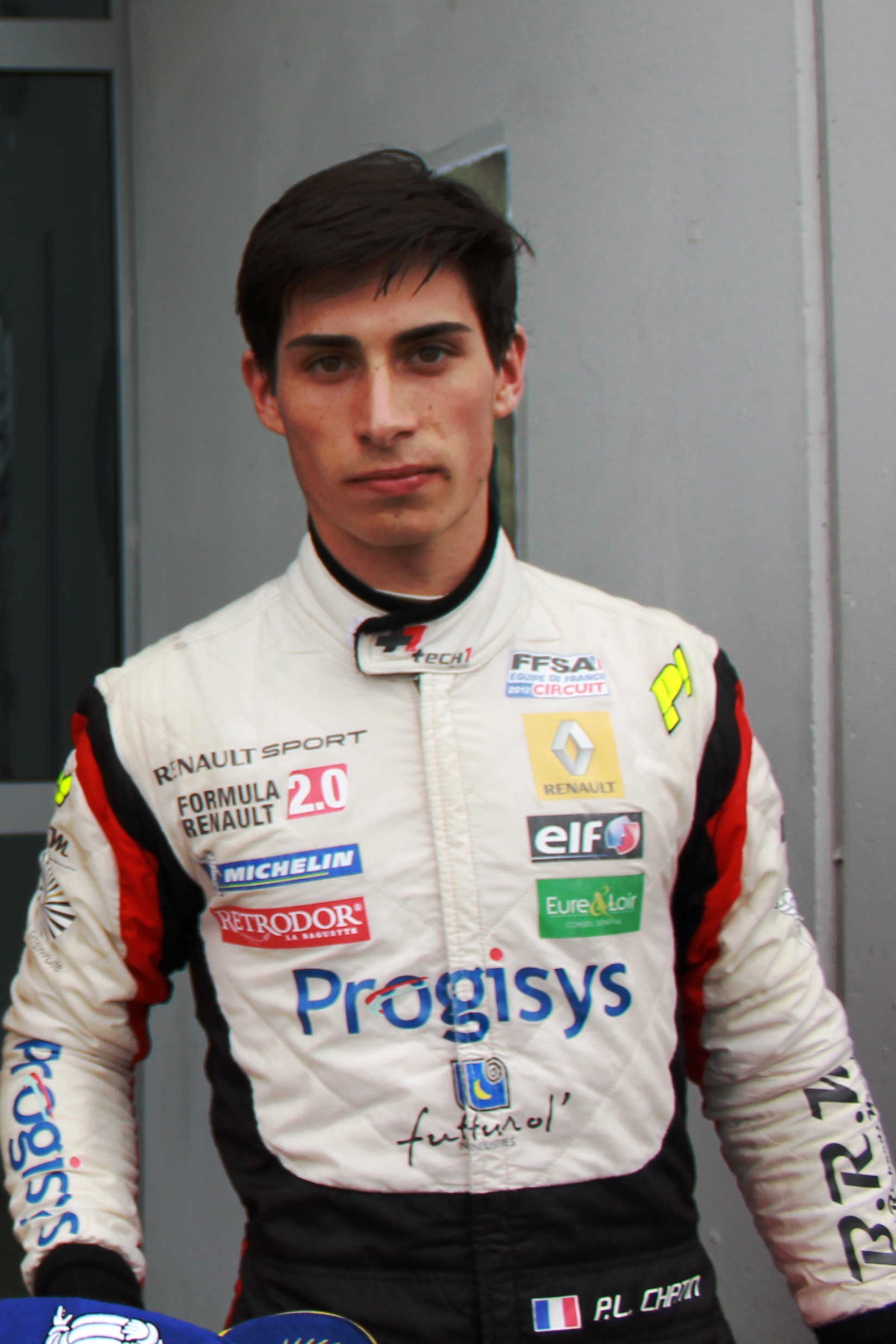 Paul-Loup Chatin at the 2012 Nürburgring World series by Renault round